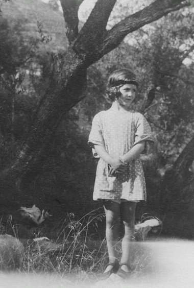 Portrait of Anne "Andy" Olivier Popham, later Bell, La Mortola, Italy